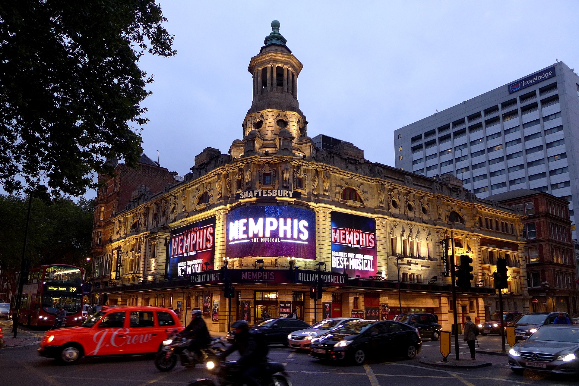 Memphis The Musical Oktober 2014 im Shaftesbury Theatre London.